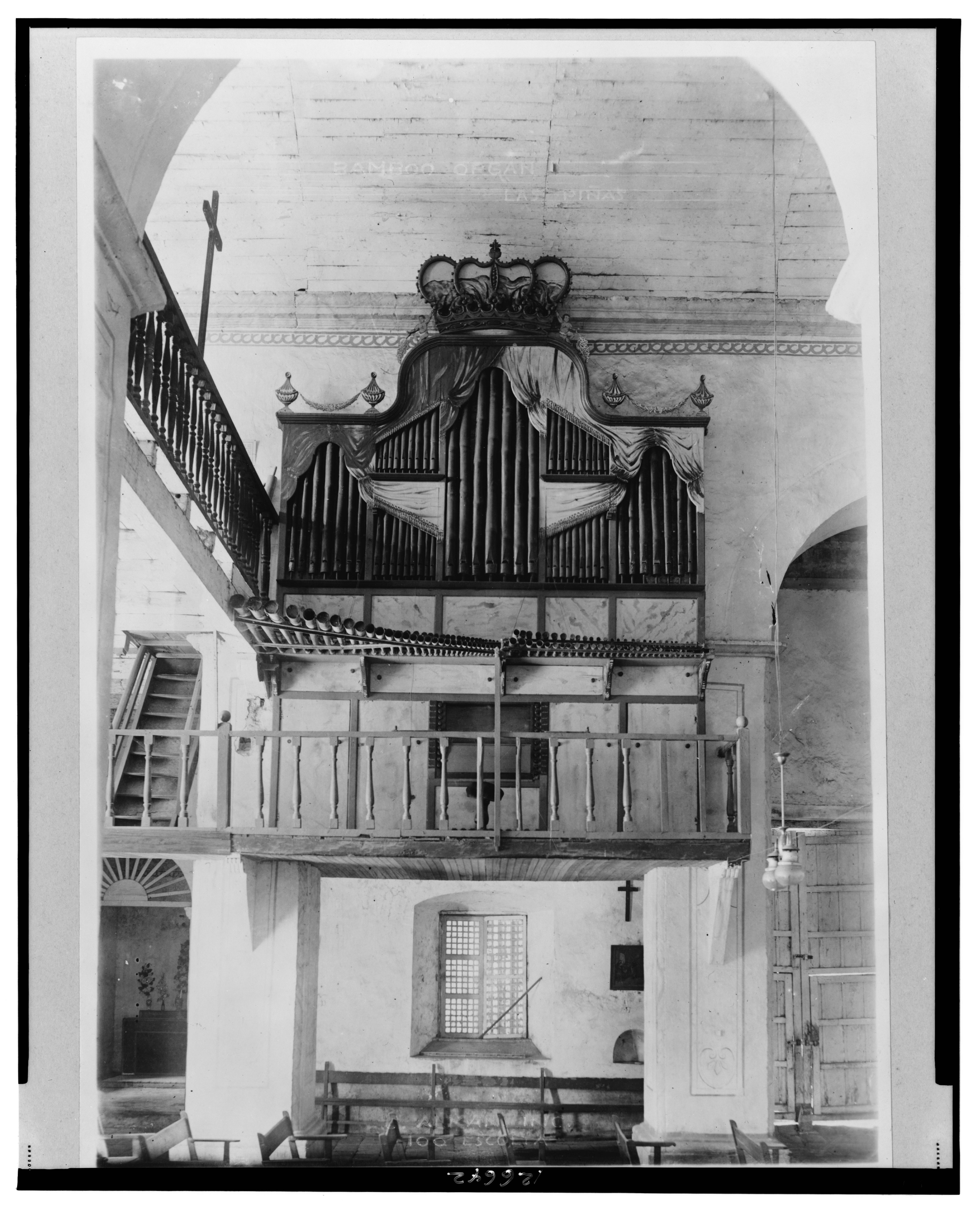 Title: Bamboo organ in church, Las Piñas, Luzon Island, Philippines Physical description: 1 photographic print. Notes: Frank and Frances Carpenter Collection (Library of Congress).